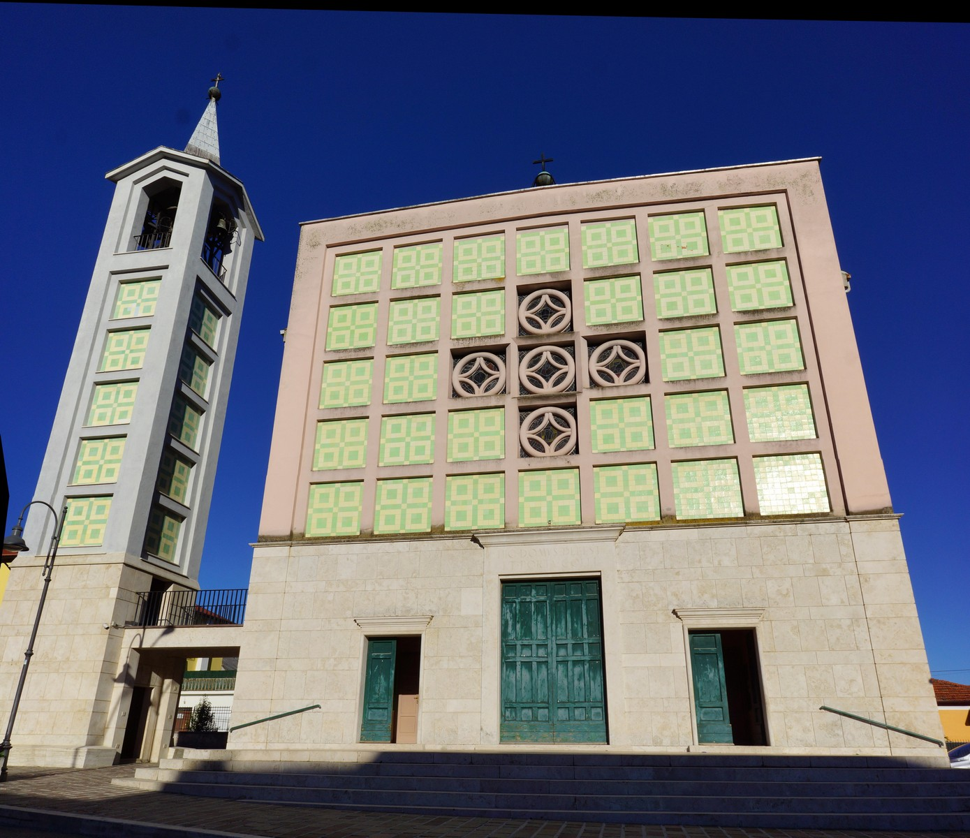 Church of San Rocco, Avezzano, Abruzzo, Italy